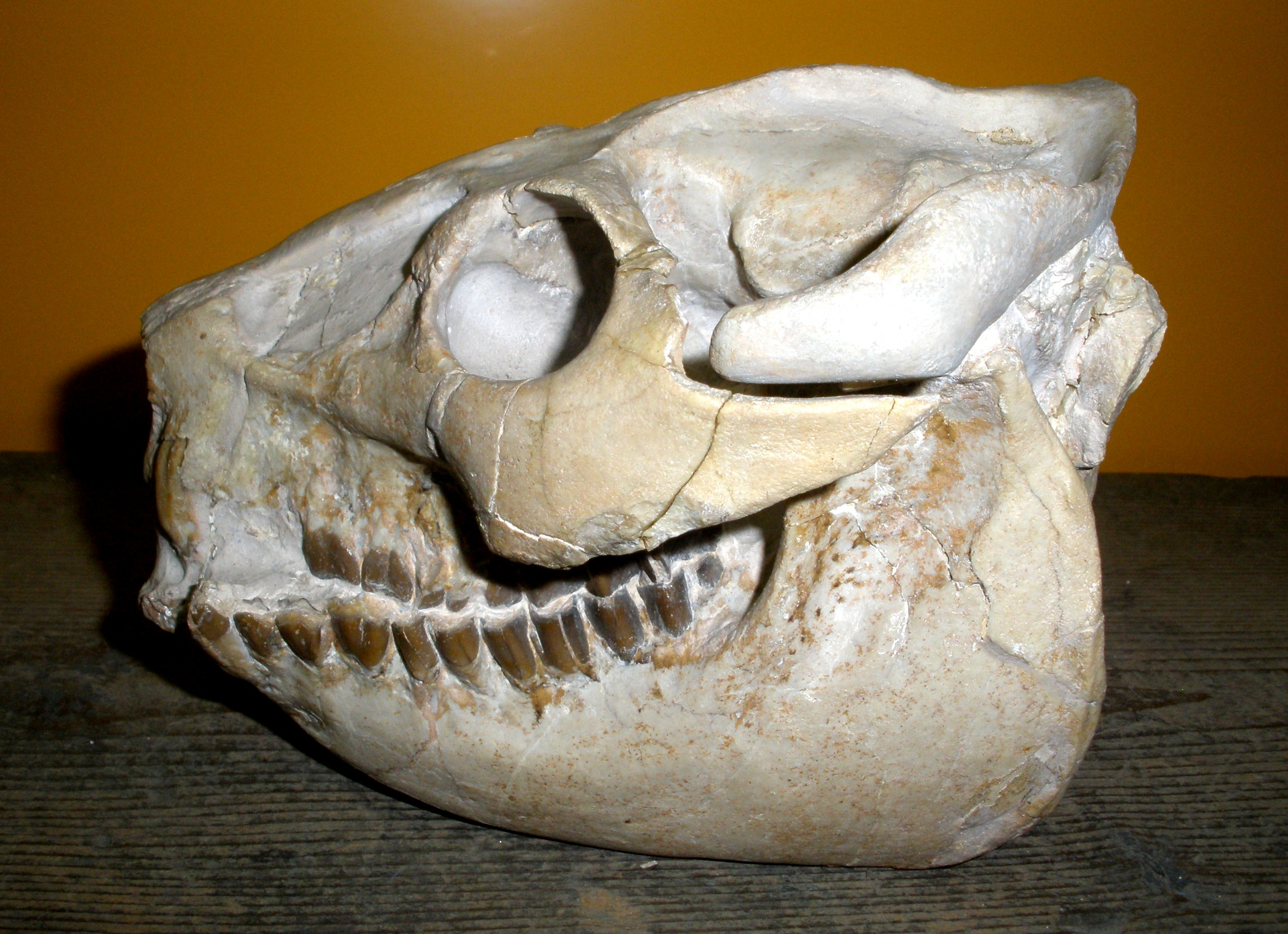 Fossil of Leptauchenia decora, an extinct artiodactyl mammal Took the photo at Museo di Storia Naturale, Milano